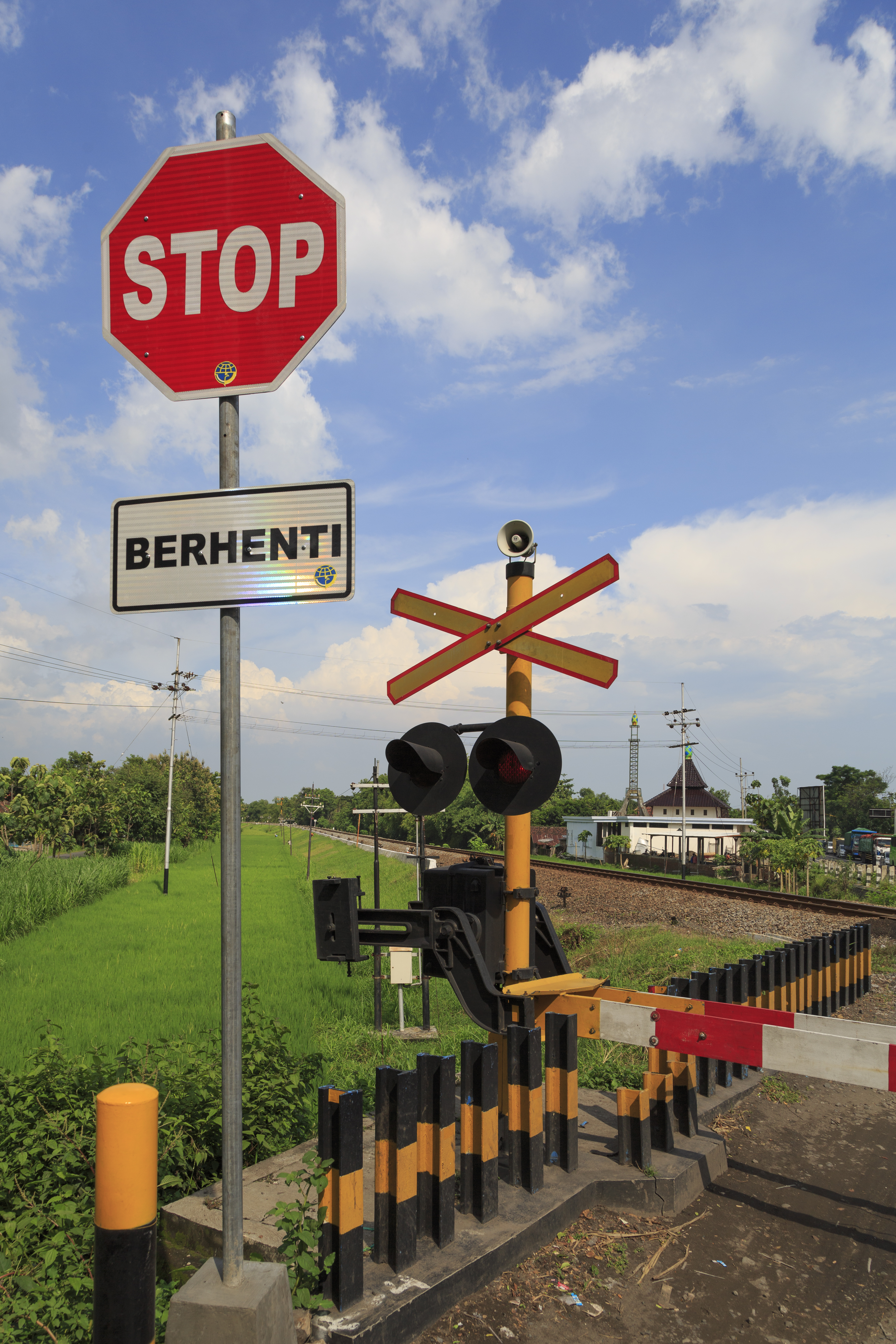 Baron, Nganjuk, Java Timur, Indonesia: Level crossing at Baron Railway Station.